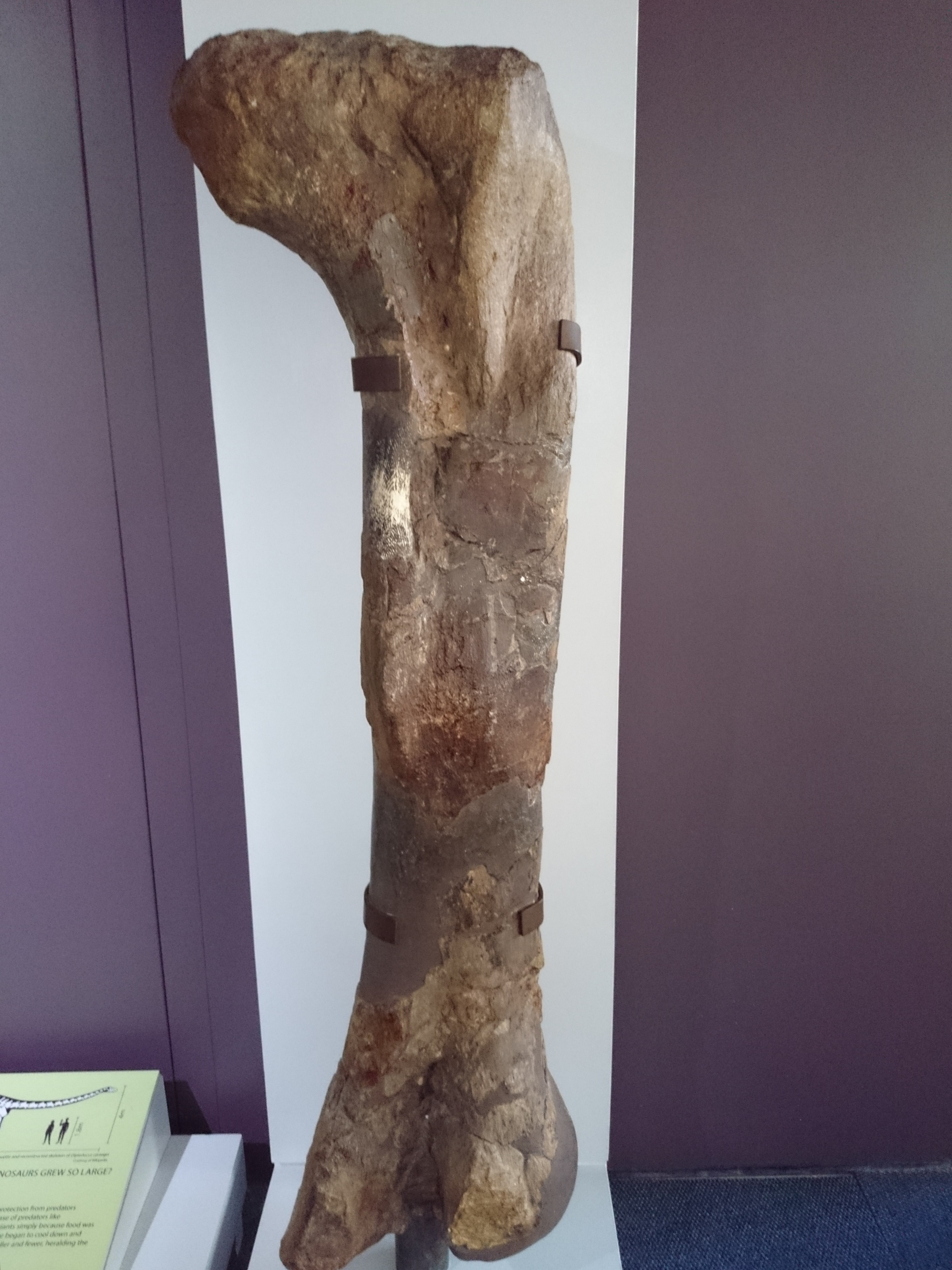 Dinosaur (Jobaria) thigh bone 2